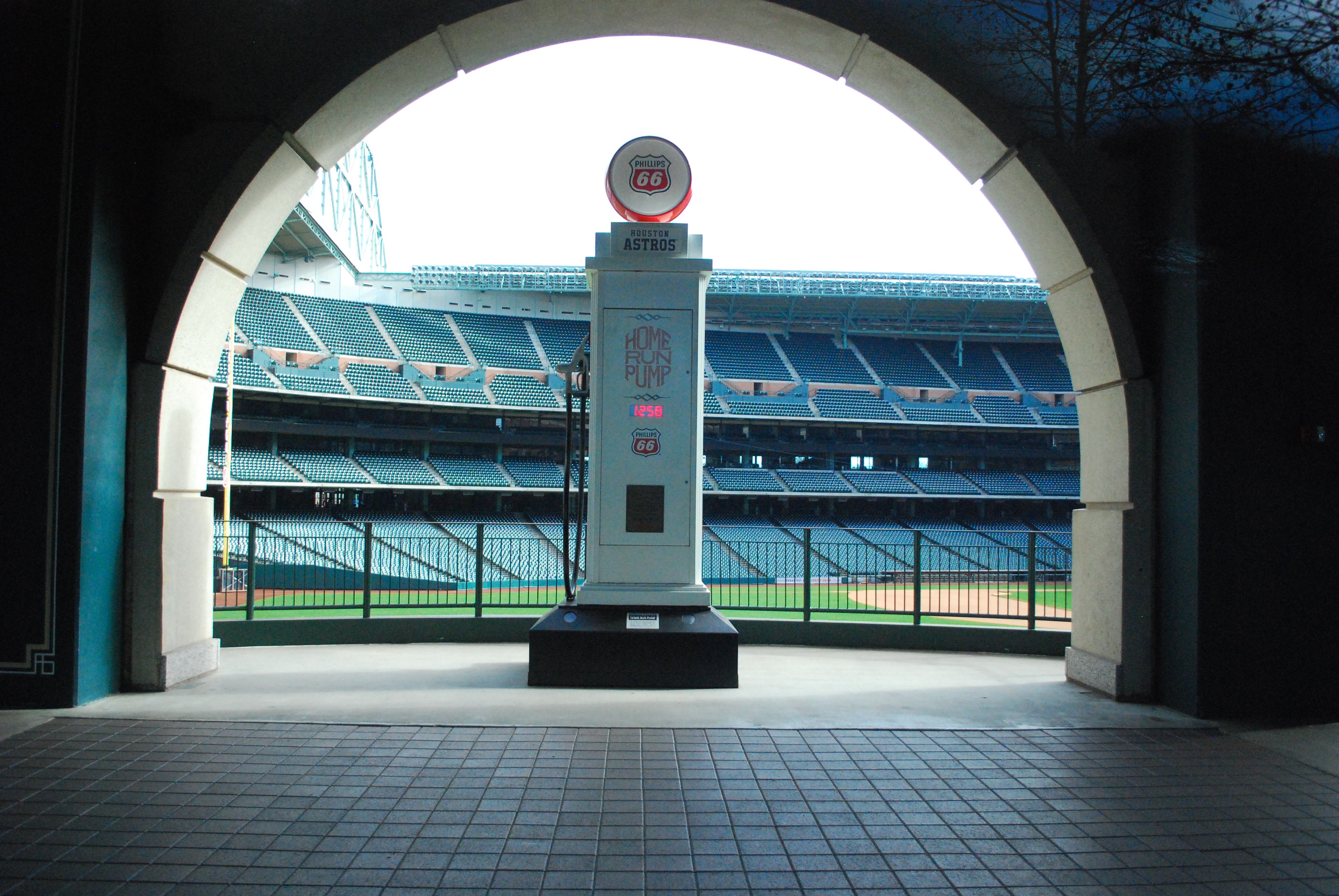 The Phillips 66 Home Run Pump at Minute Maid Park